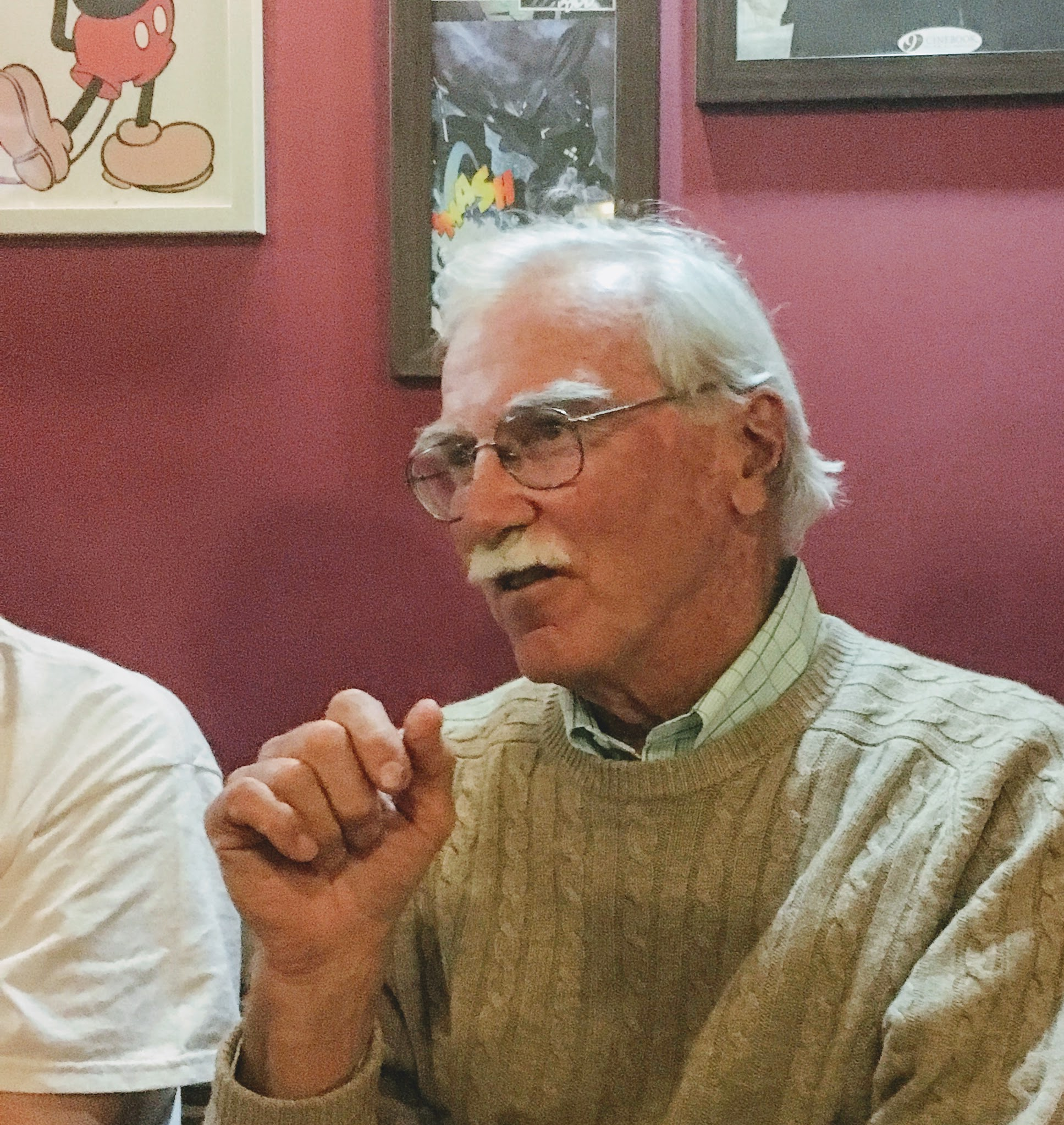 Photo (with permission) of John Fitzpatrick after a public talk on eBird at a Bangalore cafe, during interaction with Bangalore birdwatchers.